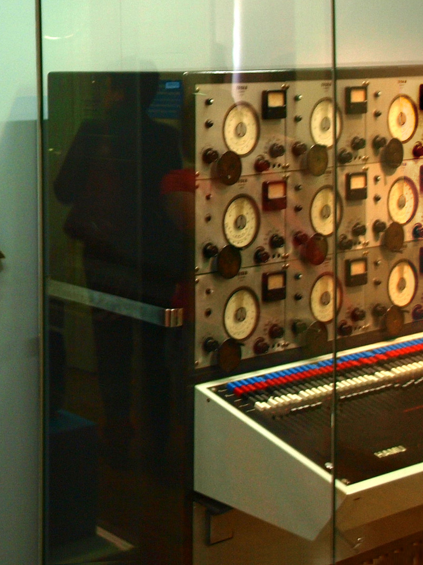 Sound Studio HAMU] by Výzkumném Ústavu Rozhlasu a Televize [In